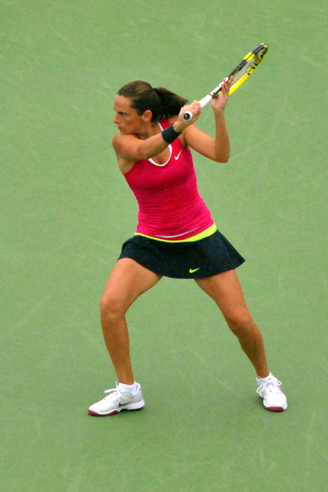 Roberta Vinci at US Open 2012 - sliced backhand